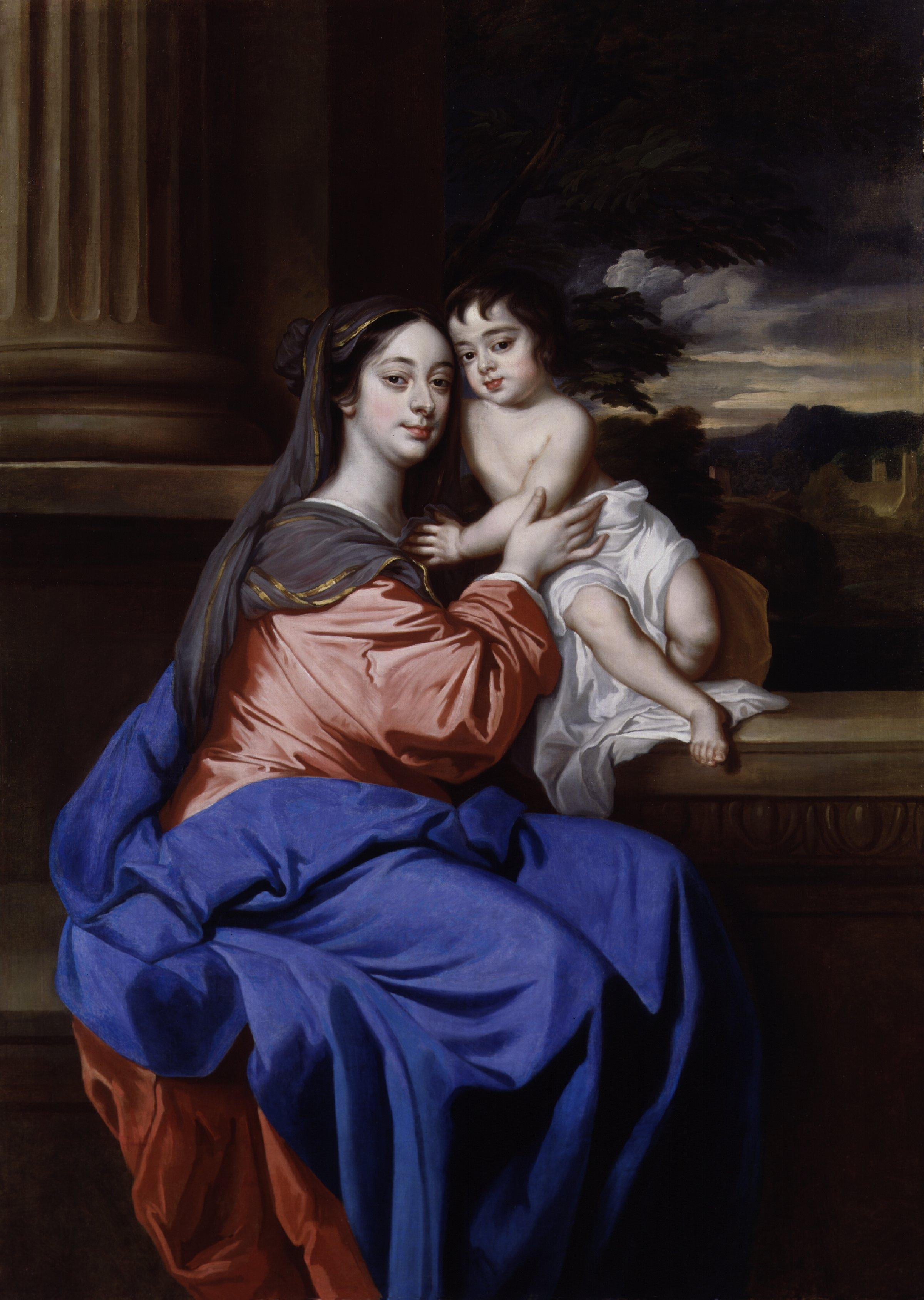 Barbara Palmer (née Villiers), Duchess of Cleveland with her son, Charles Fitzroy, as Madonna and Child